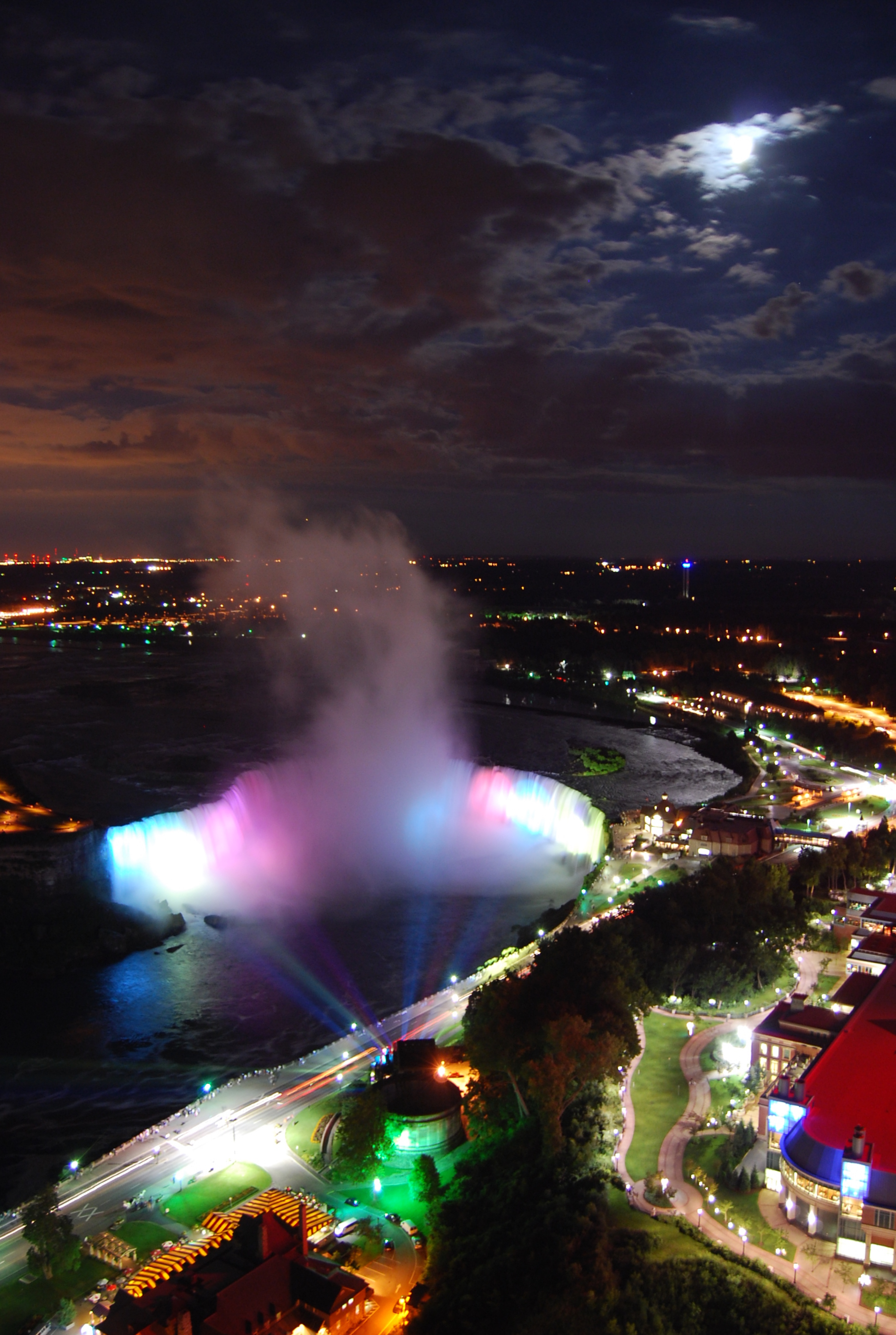 Niagra Falls at night